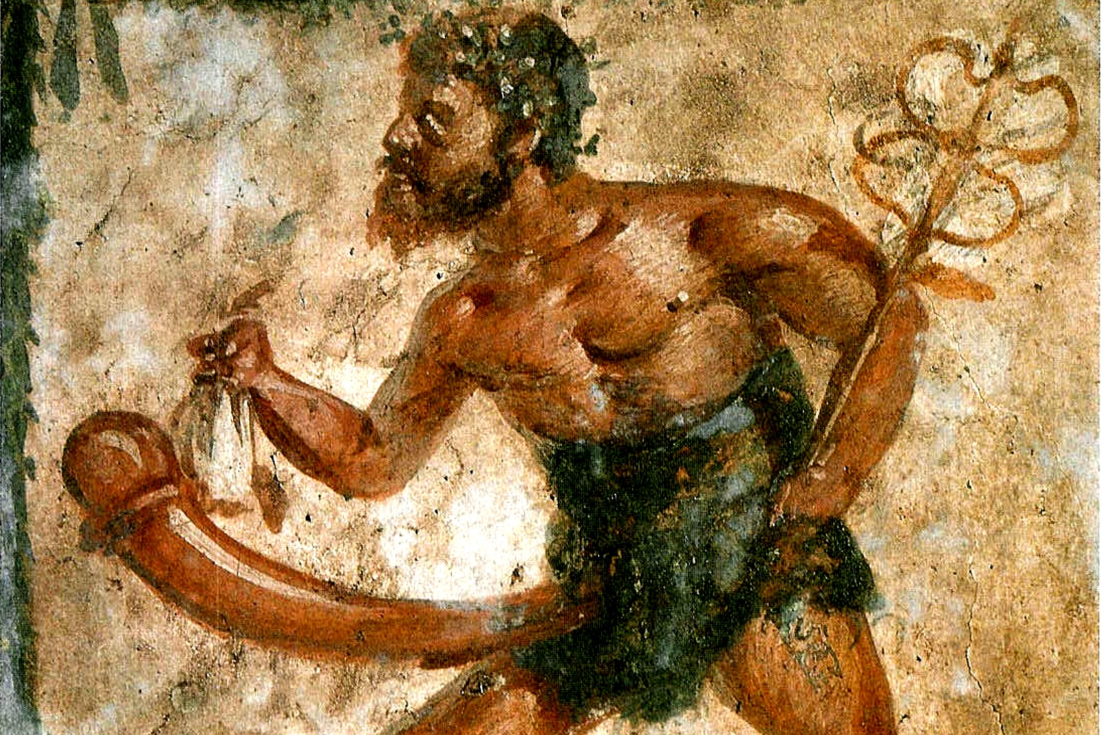 Untitled, nicknamed "Priapus with Caduceus", "Priapus-Mercury", or erroneously "Well-endowed Mercury": a character with the beard and giant erect phallus of Priapus is walking away with the caduceus and winged sandals of Mercury (supposedly, the humour was to see Priapus thieving the god of thieves, but both are gods of fertility and abundance). Anonymous fresco in Pompeii, between 89 BC and 79 AD. Museo Archeologico Nazionale (Naples), Italia.